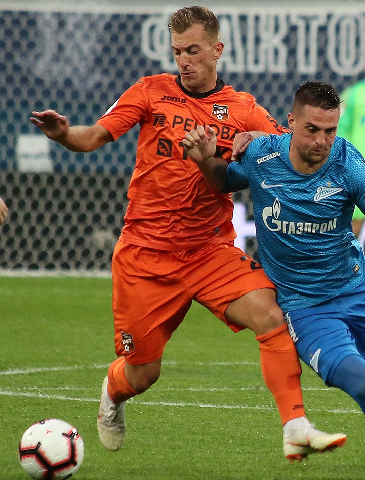 Marco Aratore with FC Ural Yekaterinburg in a game against FC Zenit Saint Petersburg.